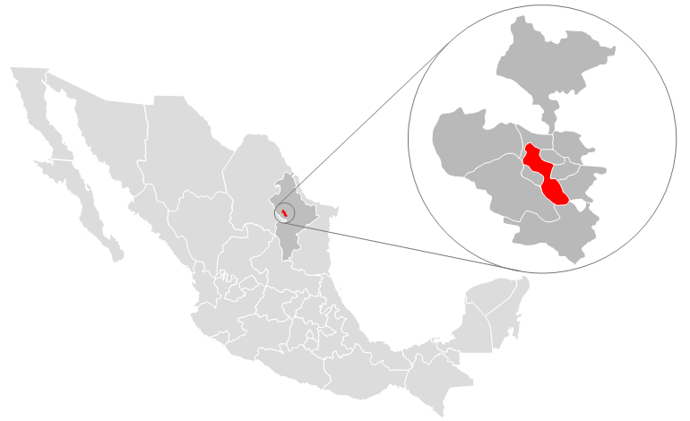 Locator map of the Municipality of Monterrey and City of Monterrey (red) in the state of Nuevo León (dark gray) of Northeastern Mexico. Map of the city's metropolitan area municipalities (dark gray), including the Municipality of Monterrey (red), in circle's blowup. Map designed by Alex Covarrubias.